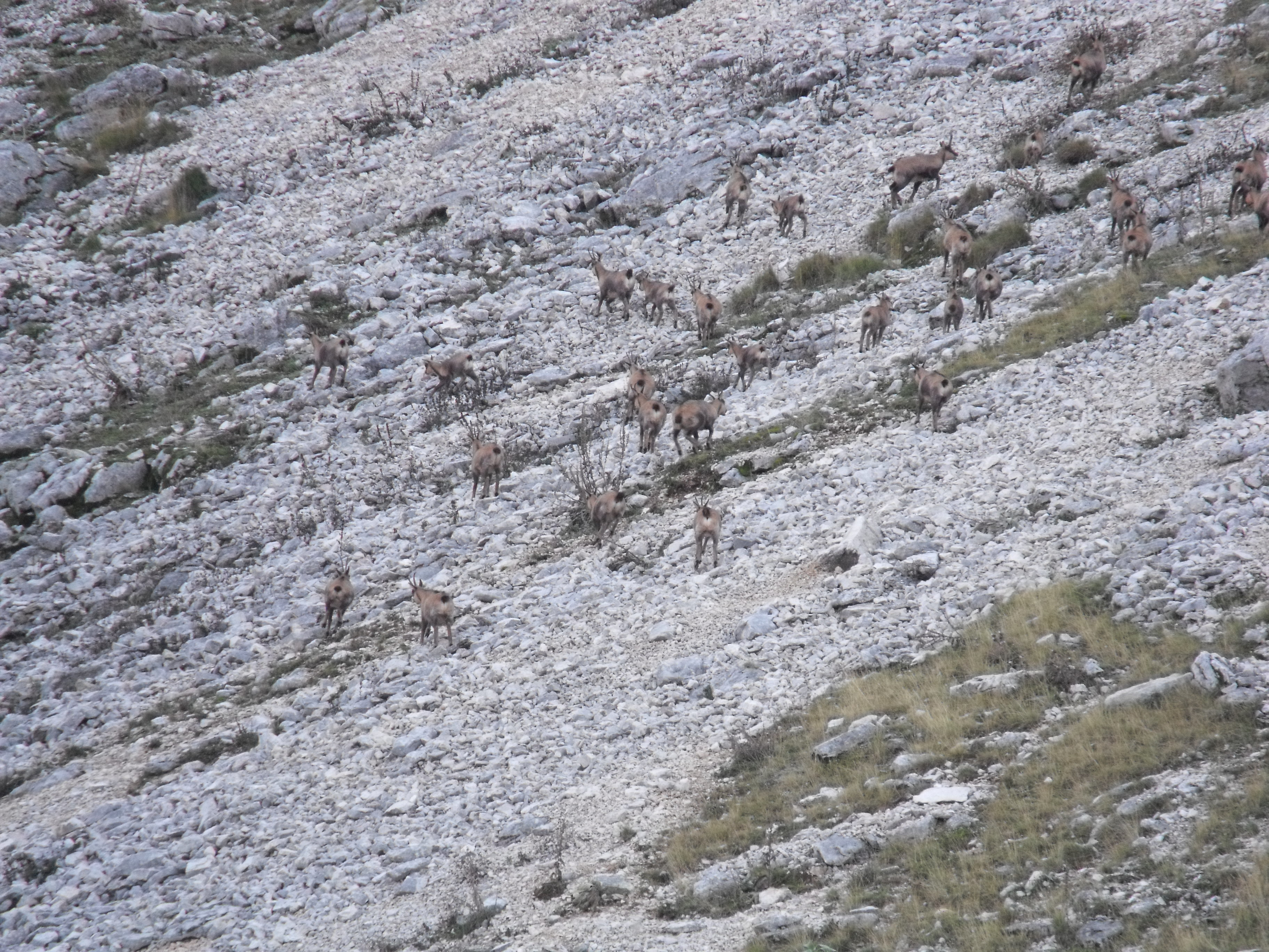 Rupicapra pyrenaica ornata photographed on Camosciara massif (National park of Abruzzo, Lazioand Molise, central Italy). About 1700 m above sea level. Photo by Massimiliano Marcelli.